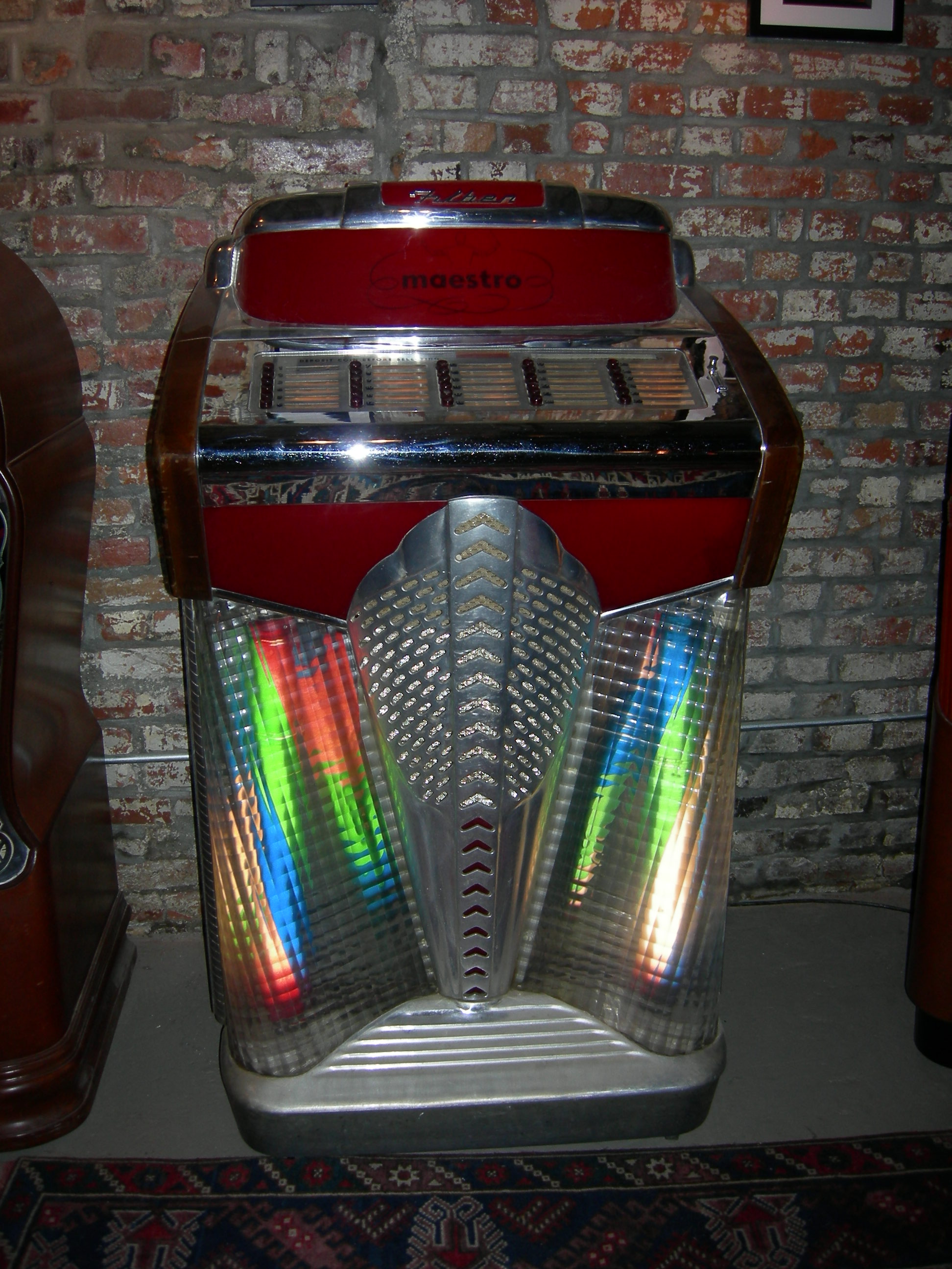 Filben Maestro juke box at "The Stables" behind Full Throttle Bottles, Georgetown, Seattle, Washington.